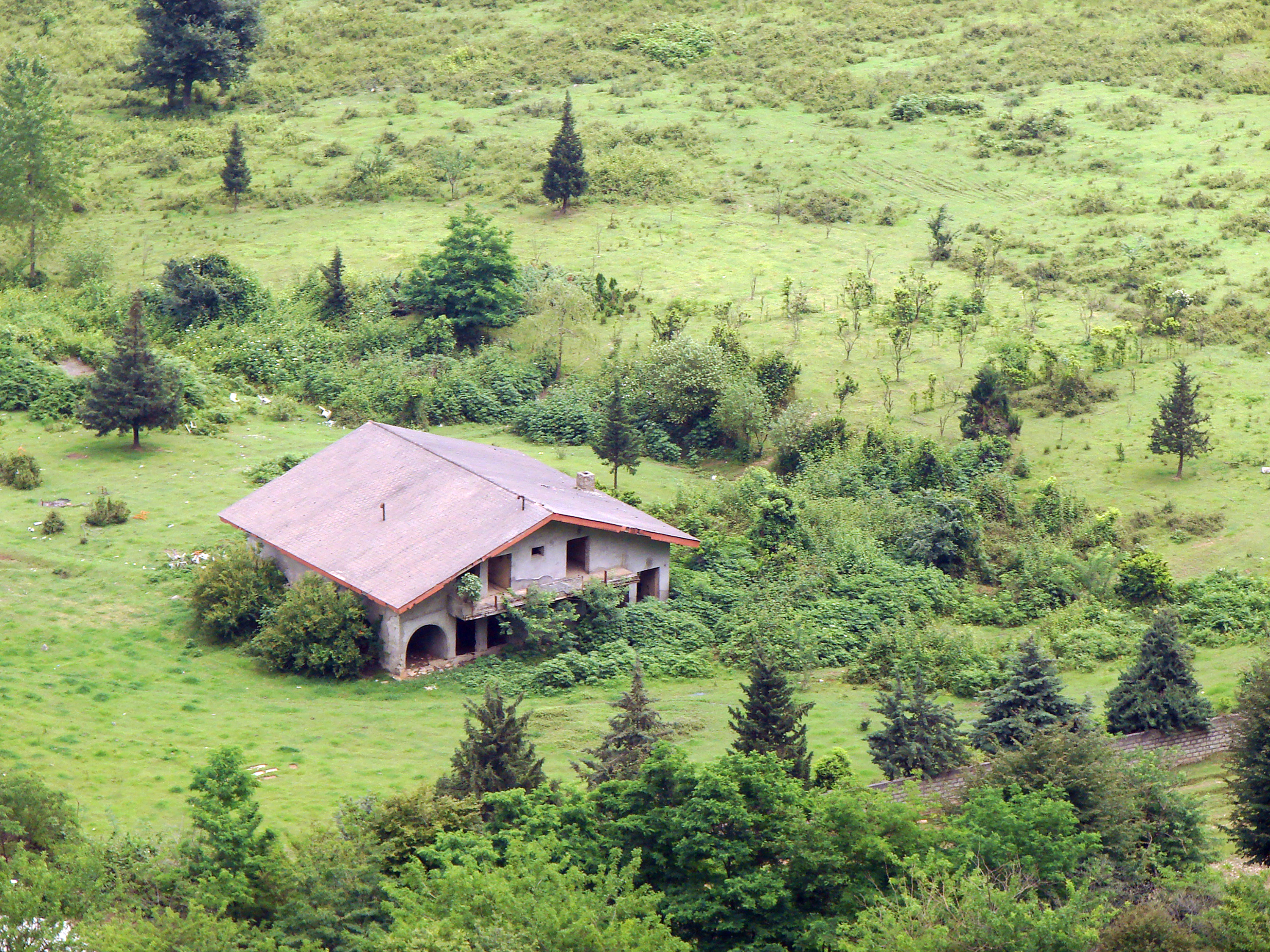 Shahrak-e Namak Abrud is a touristic village and has an aerial tramway which starts at the sea level near the shores of the Caspian Sea and ends on the top of the Alborz heights crossing dense forest area of northern Iran. There are numerous villa cities around it which form a vacation region for the people of Tehran.